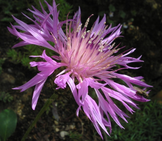 Centaurea sp., Jardin alpin, Jardin des Plantes de Paris [Note filename "Centaurea simplicaulis" is not a validly published name; valid name is Psephellus simplicicaulis.]